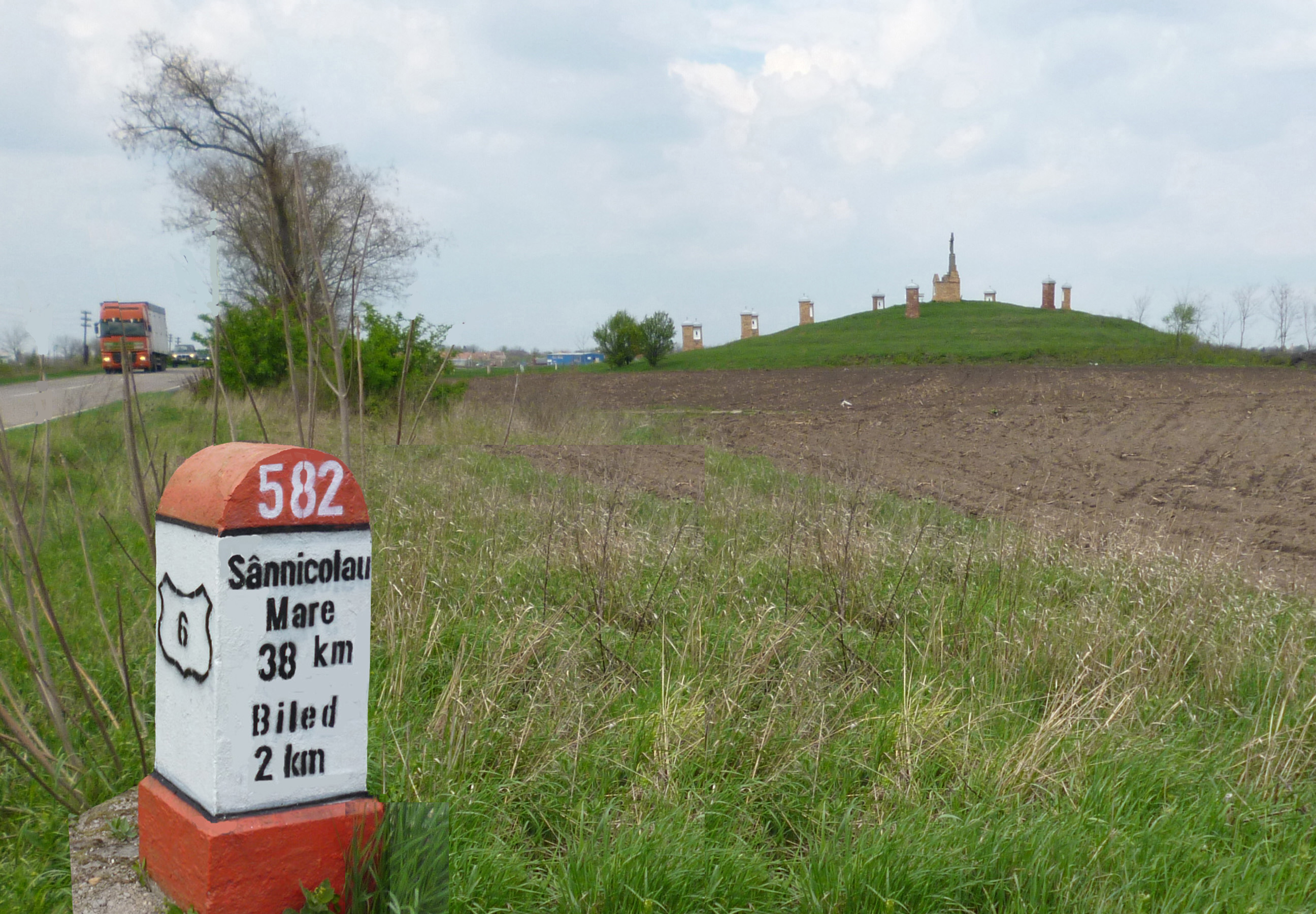 Der Kalvarienberg - the landmark of Billed